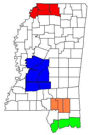 Map of Mississippi's metropolitan areas; created with the GIMP. Made by Acntx. Gulfport–Biloxi–Pascagoula, MS Hattiesburg, MS Jackson, MS Memphis, TN-MS